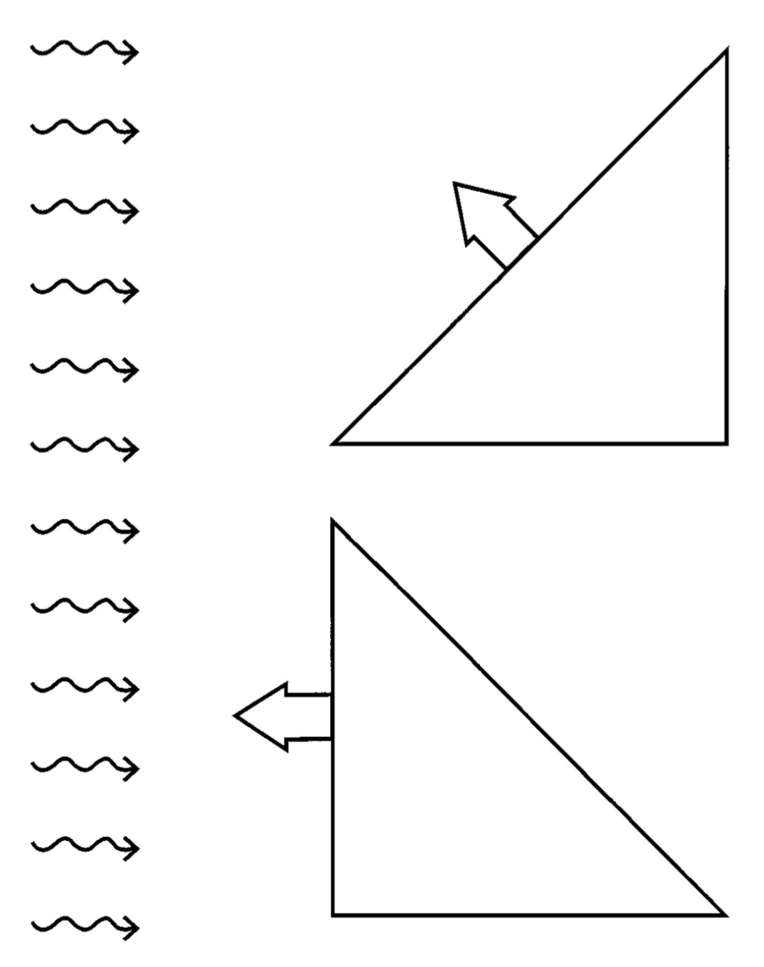 Elements of Rubincam Proprller